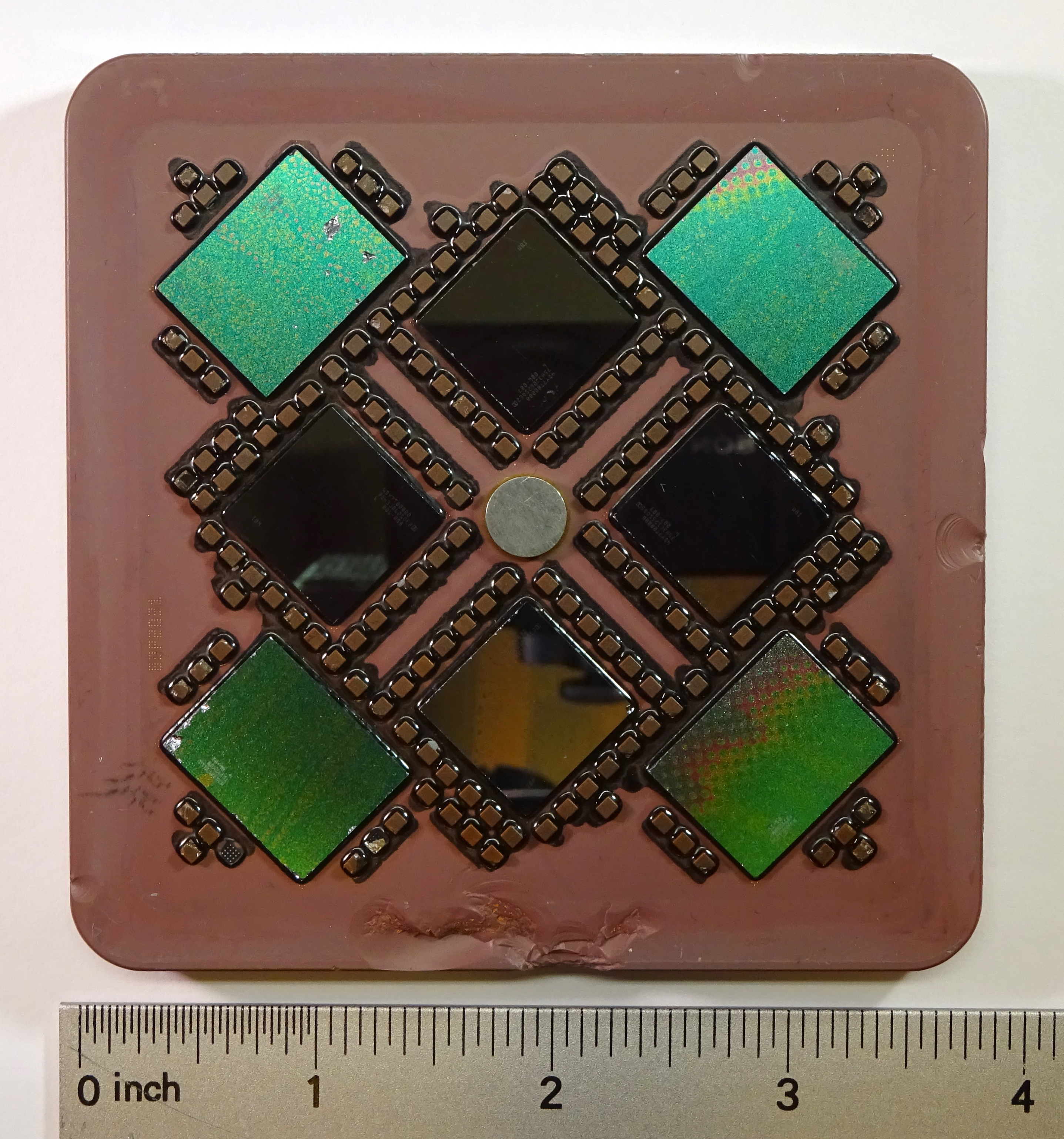 Photo of a IBM Power5 MCM CPU and cache chips.